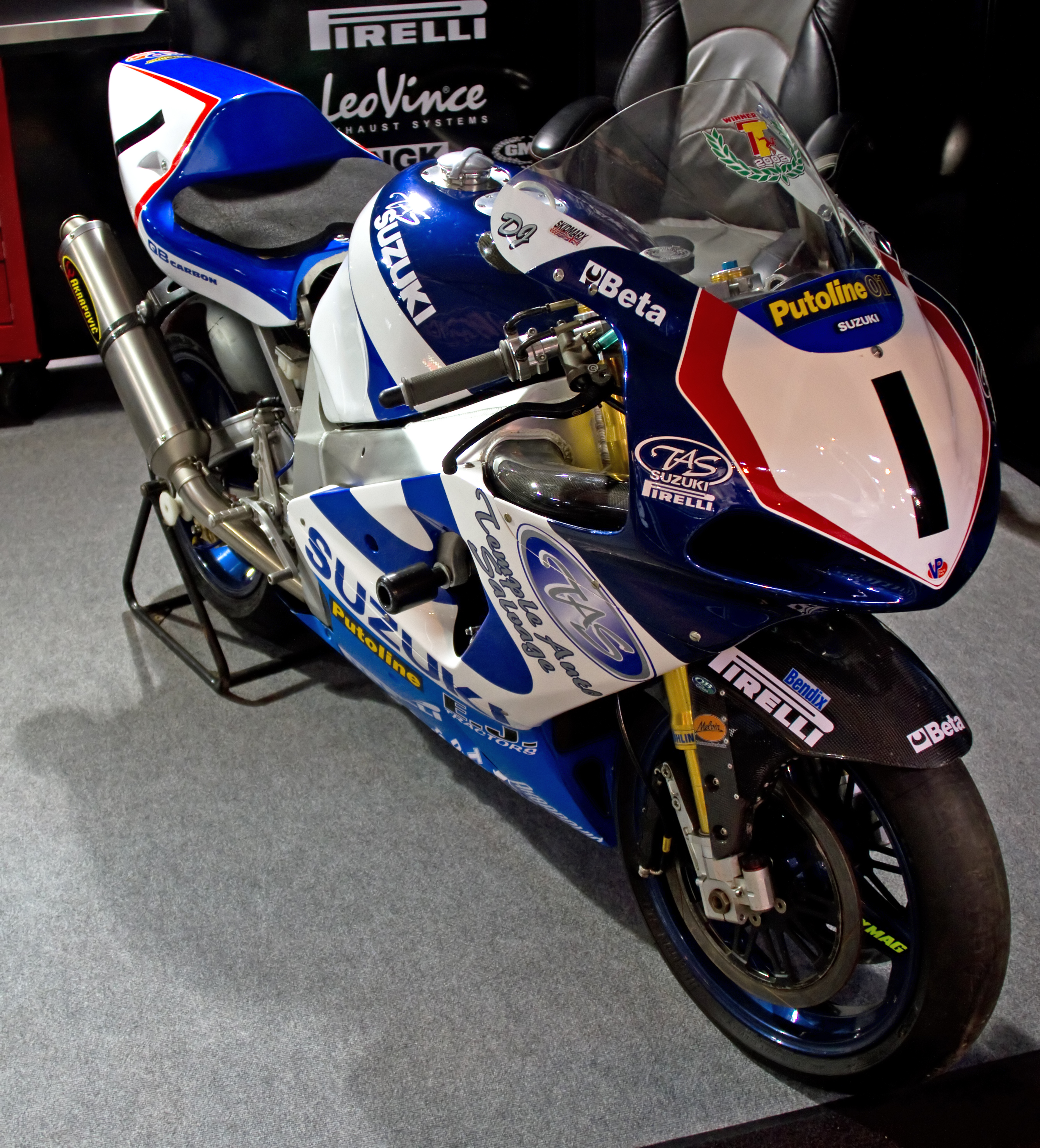 David Jefferies 2002 GSX-R1000